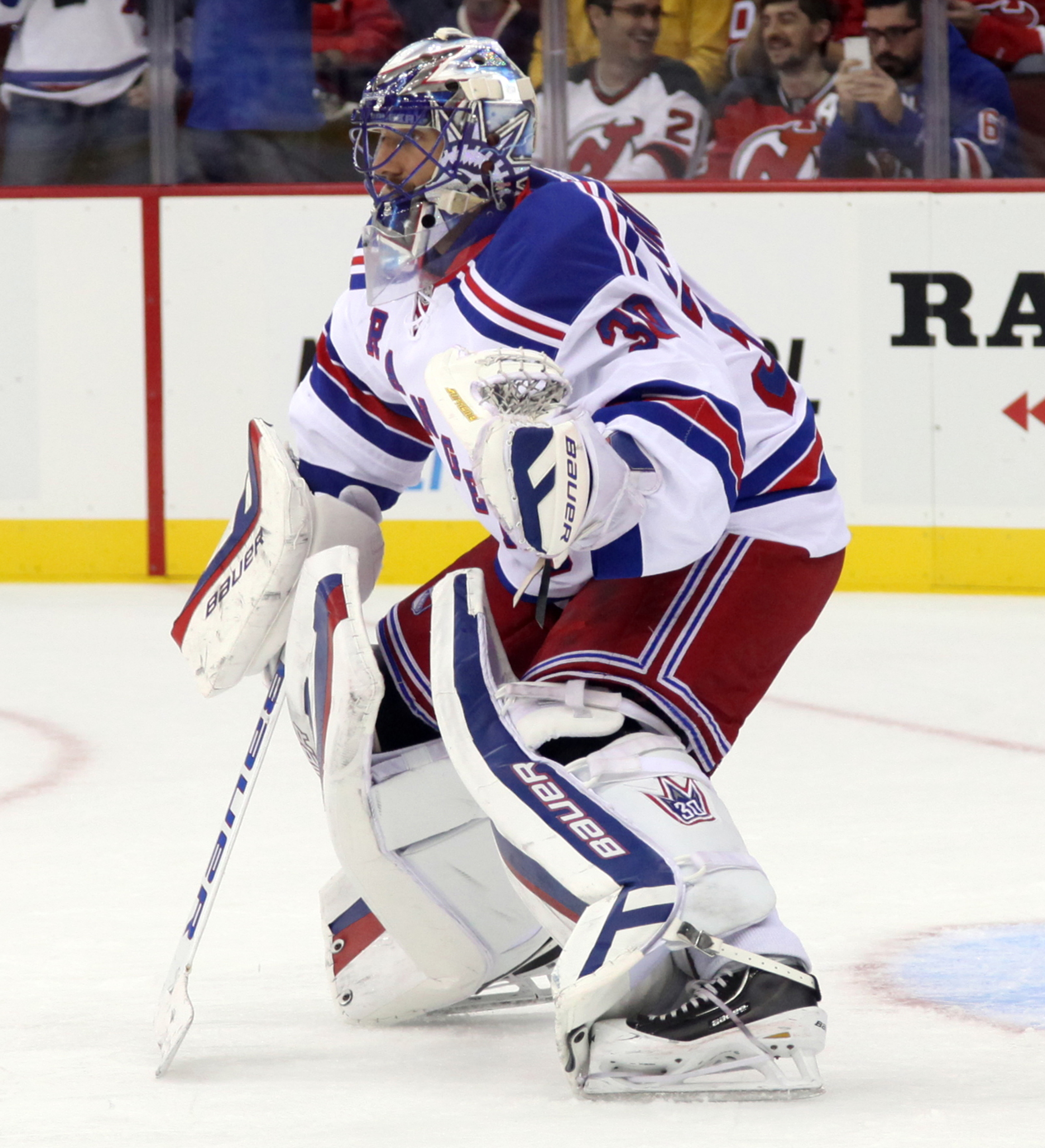 Lundqvist as a New York Ranger in October 2014.